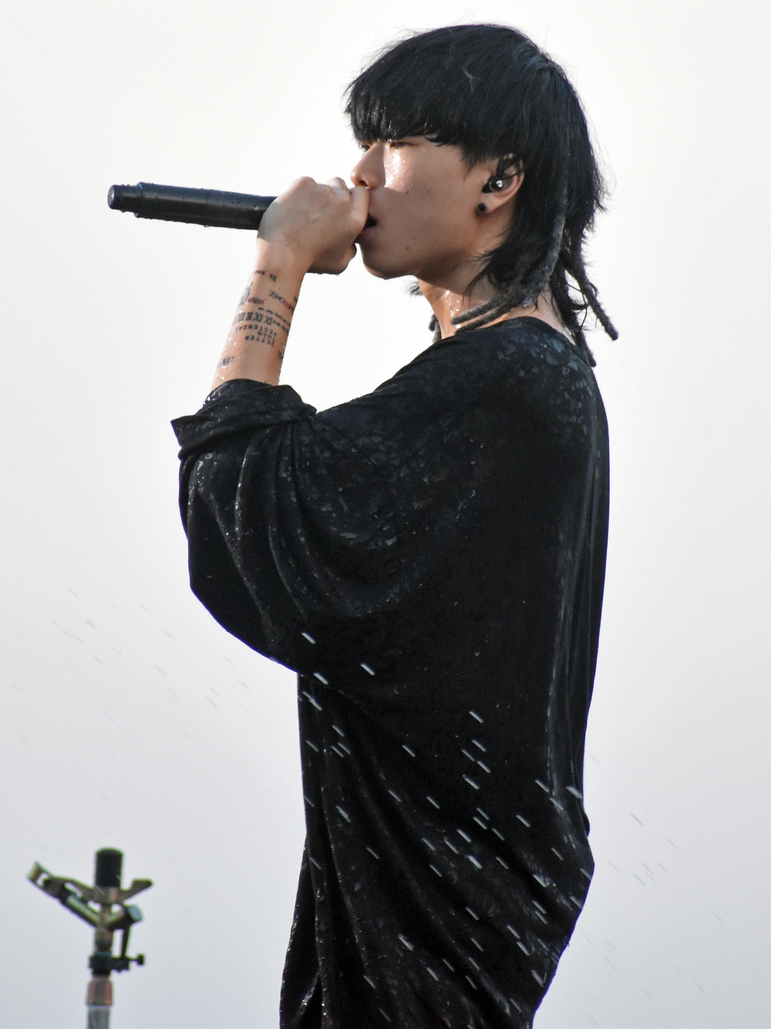 Yoon Jin-young (Clloud) at the 23rd Busan Sea Festival in Haeundae on August 1, 2018.